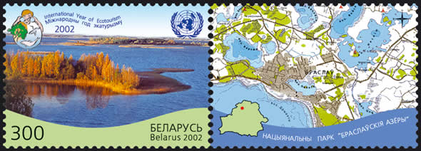 Stamp of Belarus